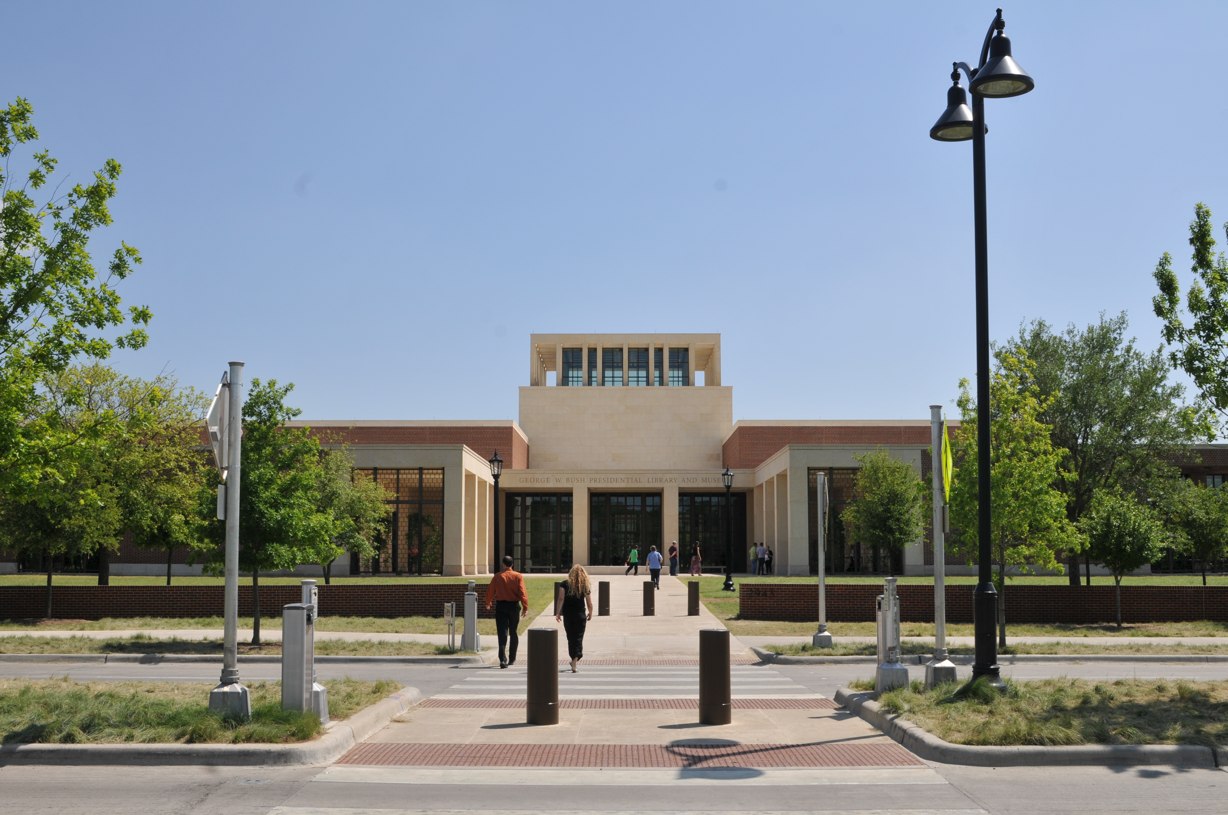 George W. Bush Presidential Center - Part of main enterence